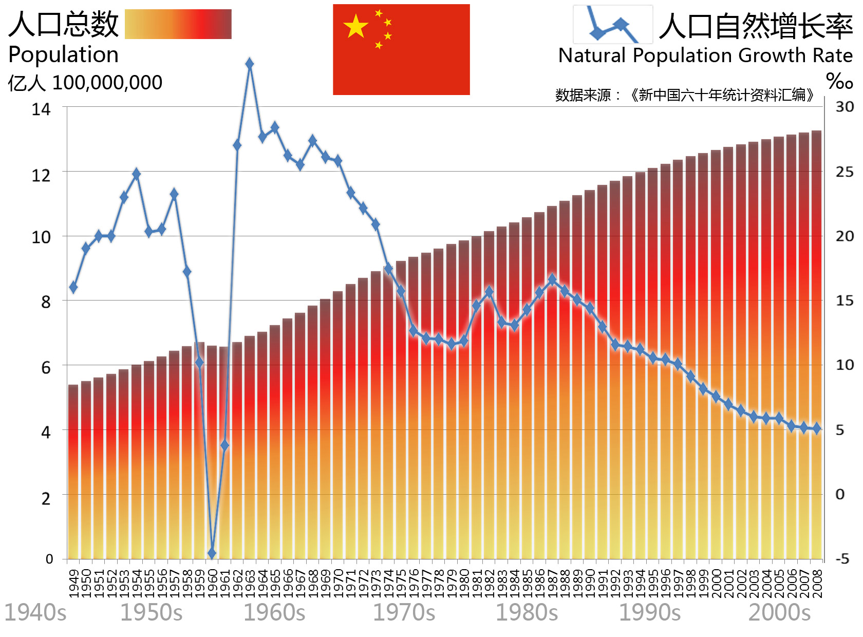 Population and Natural Increase Rate, People's Republic of China, from 1949 to 2008.